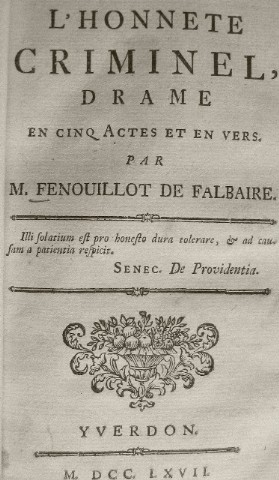 Cover page of "L'Honnête Criminel" by French playwright Charles-Georges Fenouillot de Falbaire de Quingey (1727-1800)